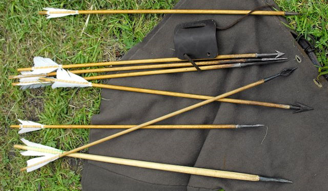 Crop of original photograph, eliminating the training shot